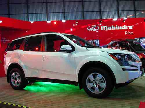 Mahindra XUV 500, Mahindra & Mahindra Limited Ghana